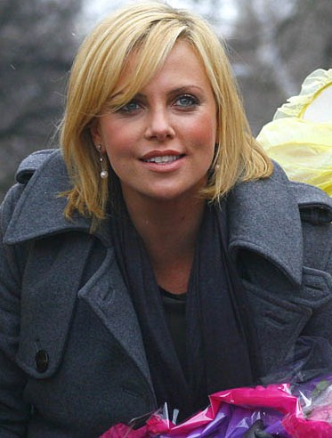 Charlize Theron at the Harvard Hasty Pudding Woman of the Year ceremony